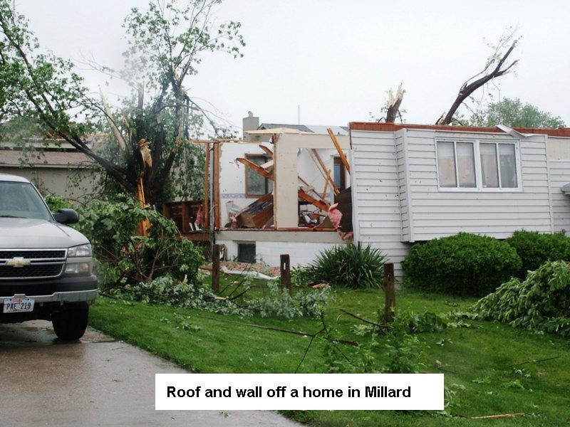 EF2 tornado damage made to a home in Omaha on June 8, 2008. The tornado affected southwestern parts of Omaha at around 2 AM on June 8. Courtesy of NWS Omaha.